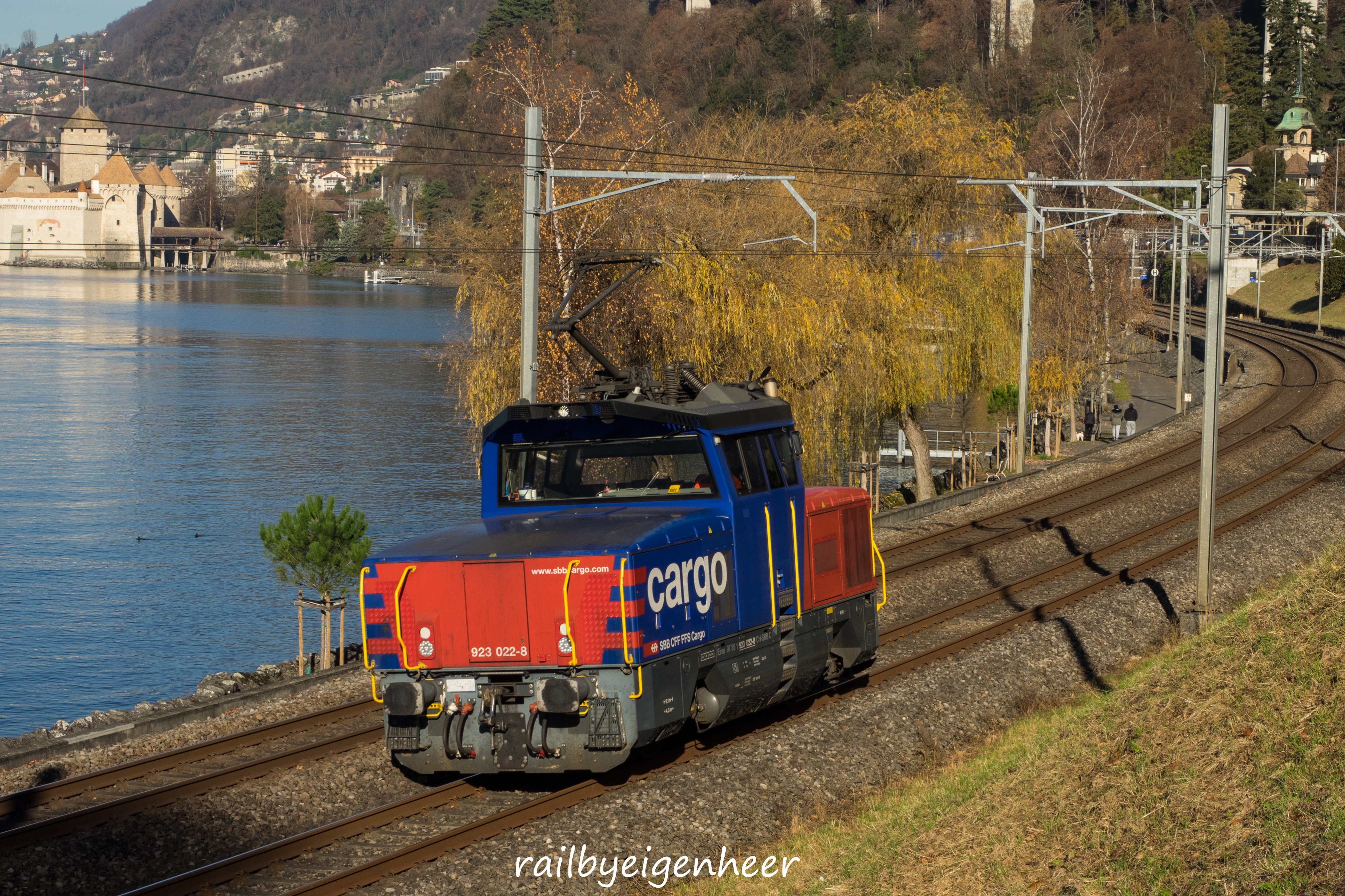 Villeneuve/Clos du Moulin 01.12.2016